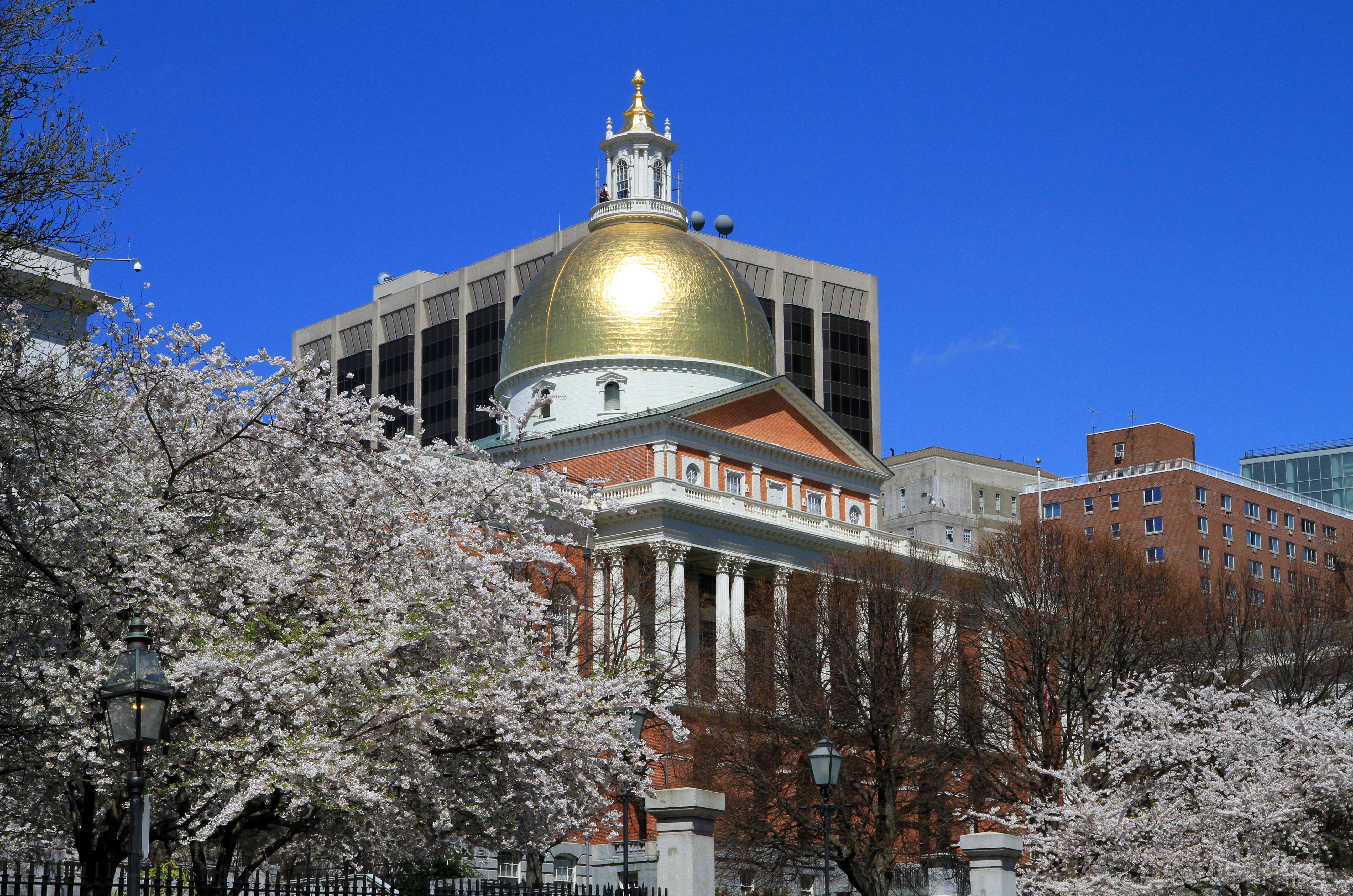 Massachusetts State House